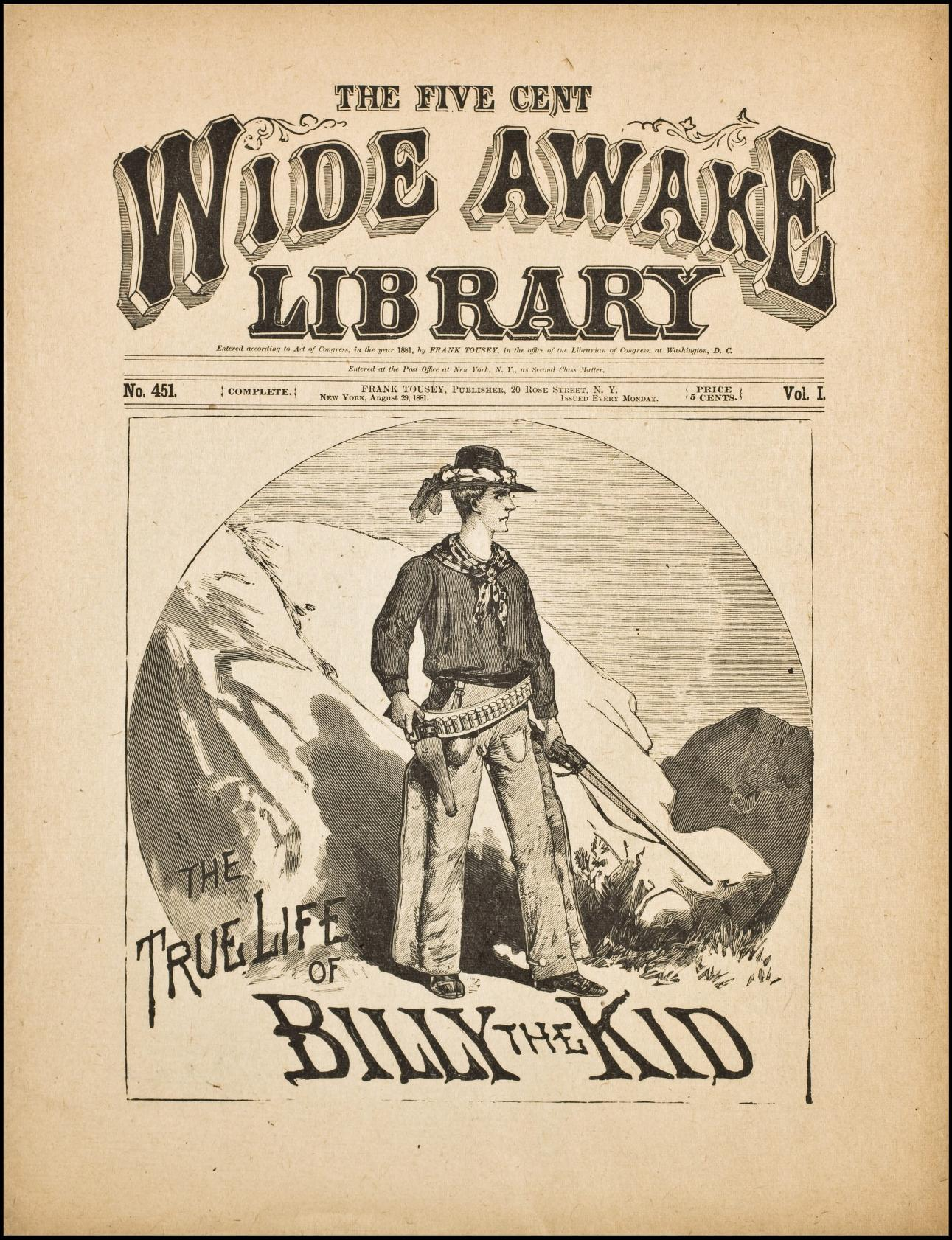 Cover of The True Life of Billy the Kid, by Don Jenardo, originally published in Frank Tousey's Five Cent Wide Awake Library, reprinted in 1945